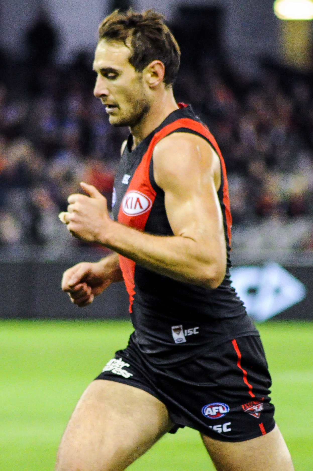 Jobe Watson during the AFL round twelve match between Essendon and Port Adelaide on 10 June 2017 at Etihad Stadium in Melbourne, Victoria.